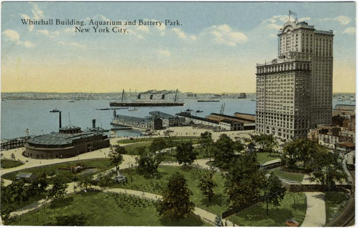 Whitehall Building, Aquarium and Battery Park, New York City